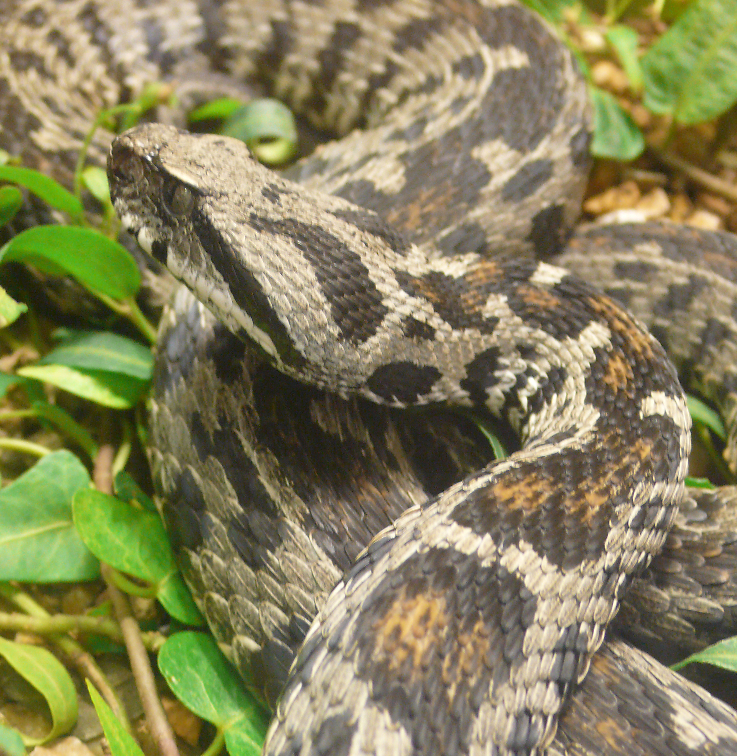 Ocellated Mountain Viper (Vipera wagneri)